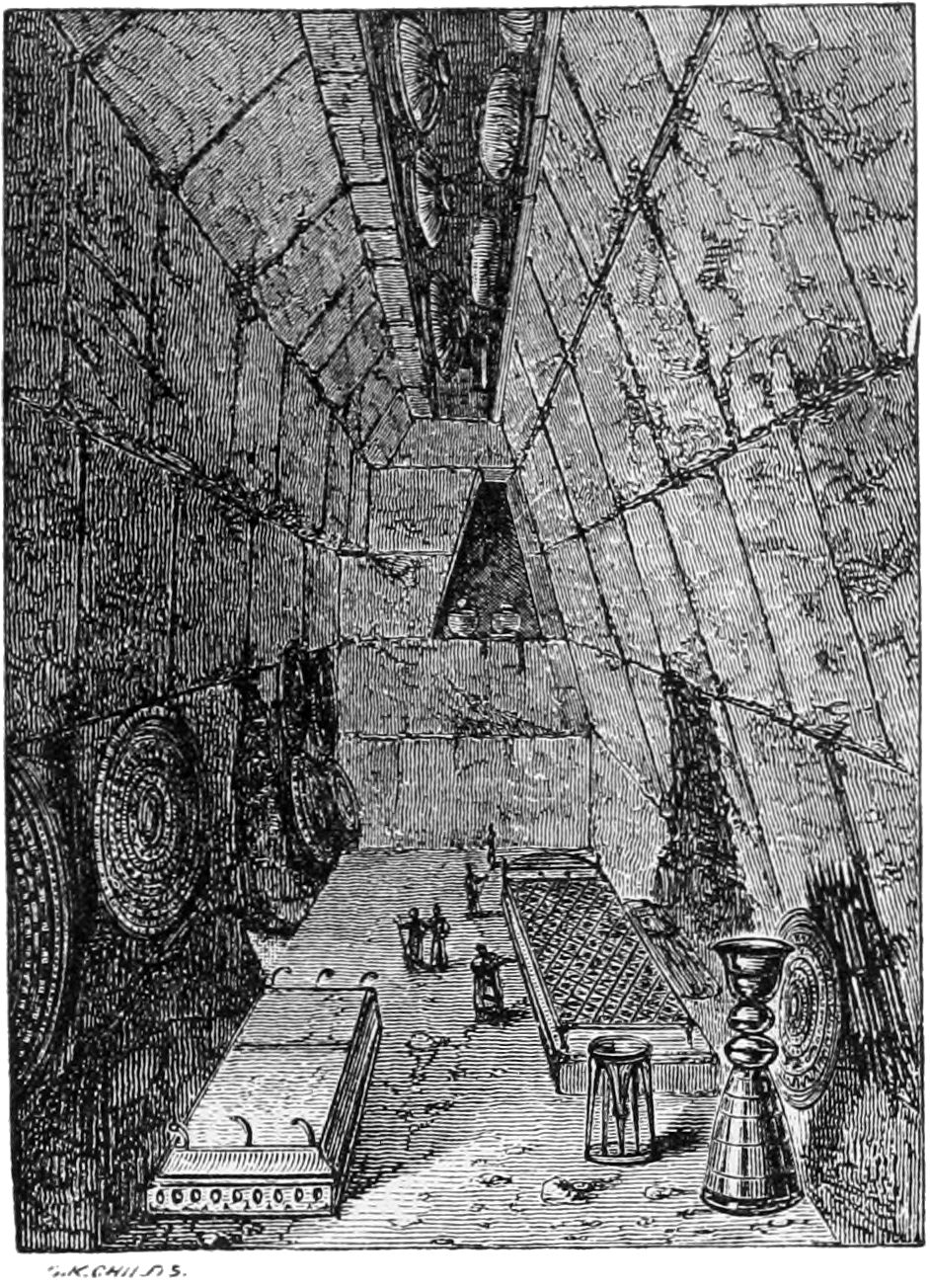 View of principal Chamber in the Regolini-Galassi tomb in Caere from figure number 6 from the book Rude Stone Monuments (1872)